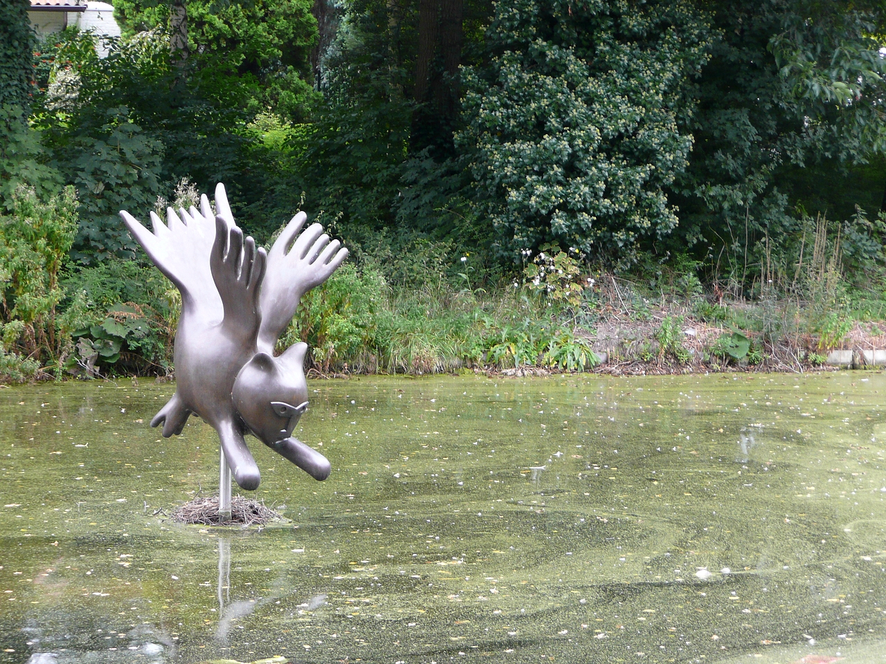 sculpture Katvogel (2003) by Corneille in Amstelveen/The Netherlands